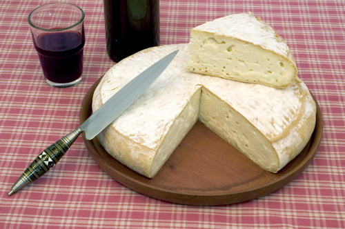 Cheese Flower and "cuchillo canario" (Canarian knife) (Gran Canaria)